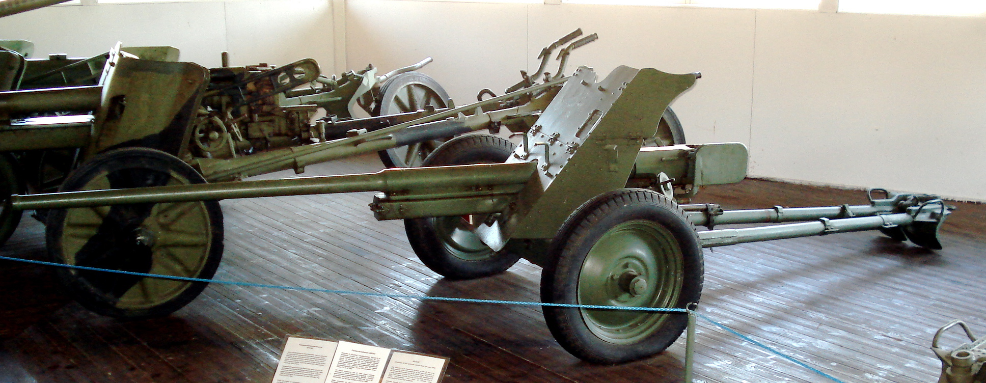 Soviet 45 mm Mark 1942 anti-tank gun, displayed in Finnish Tank Museum (Panssarimuseo) in Parola. Photo taken on July 14, 2006. Source: Photo by me, User:Balcer.